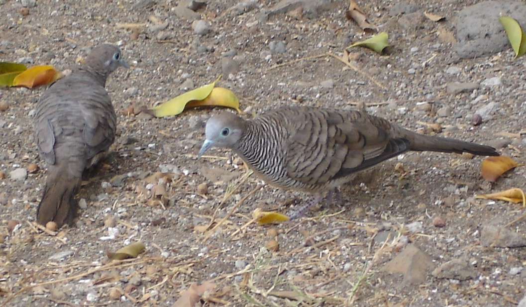 Description: Geopelia striata, november 2004, La Réunion Source: Bouba